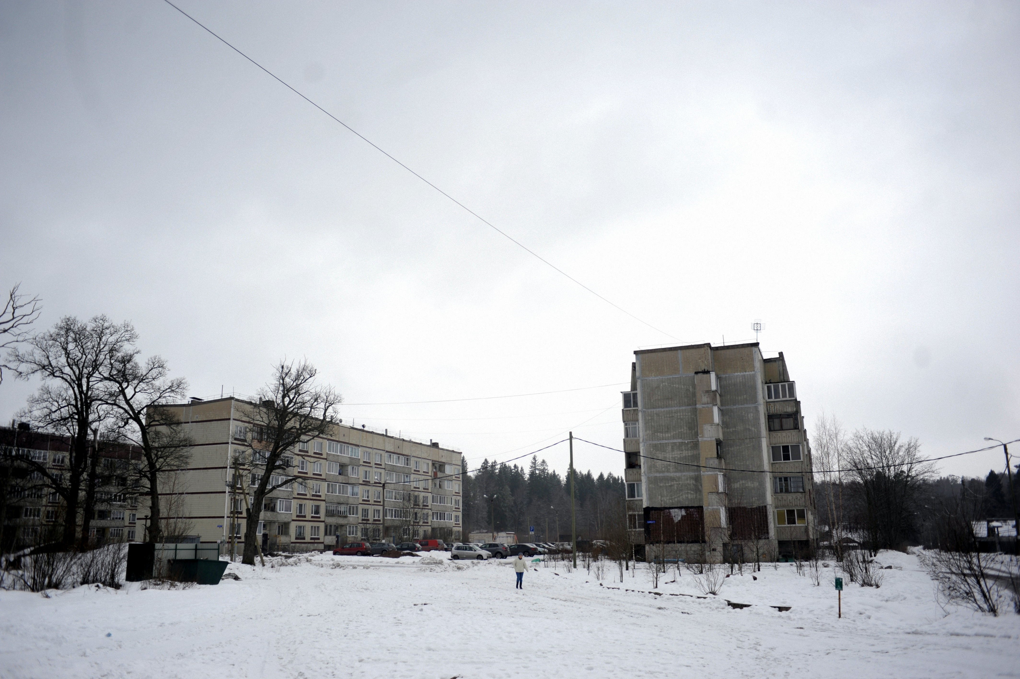 Urban Johannes